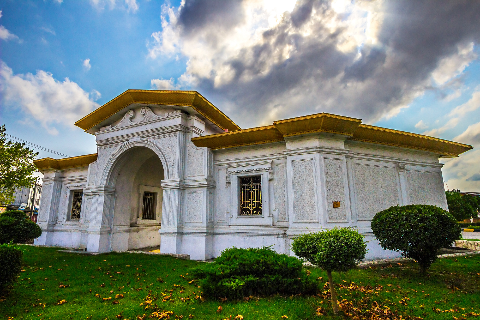 Entrance of the Medical Sciences University of Babol, Mazandaran Province, Iran